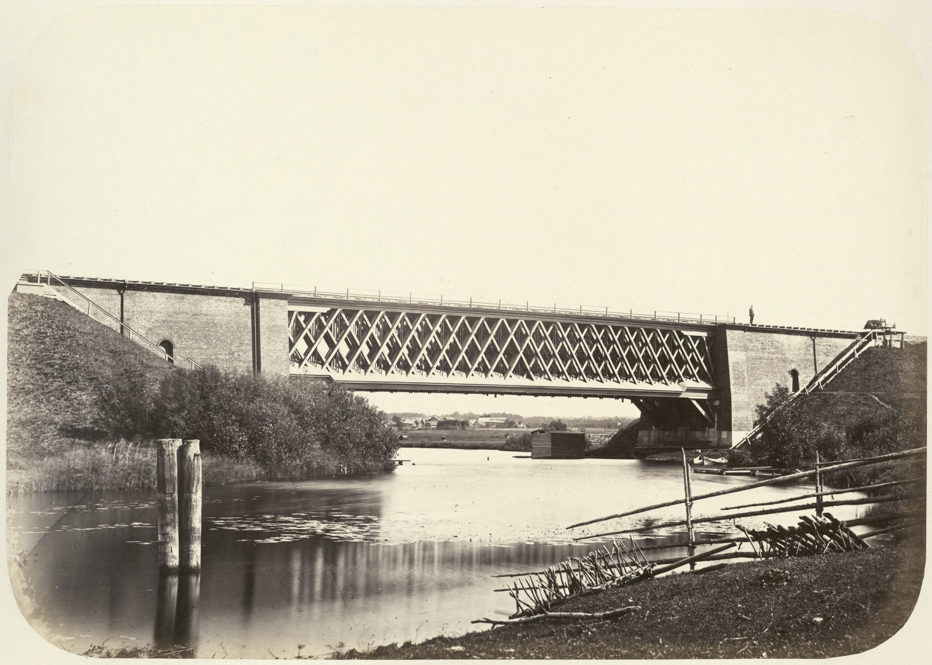 Railway bridge on Saint Petersburg-Moscow Railway